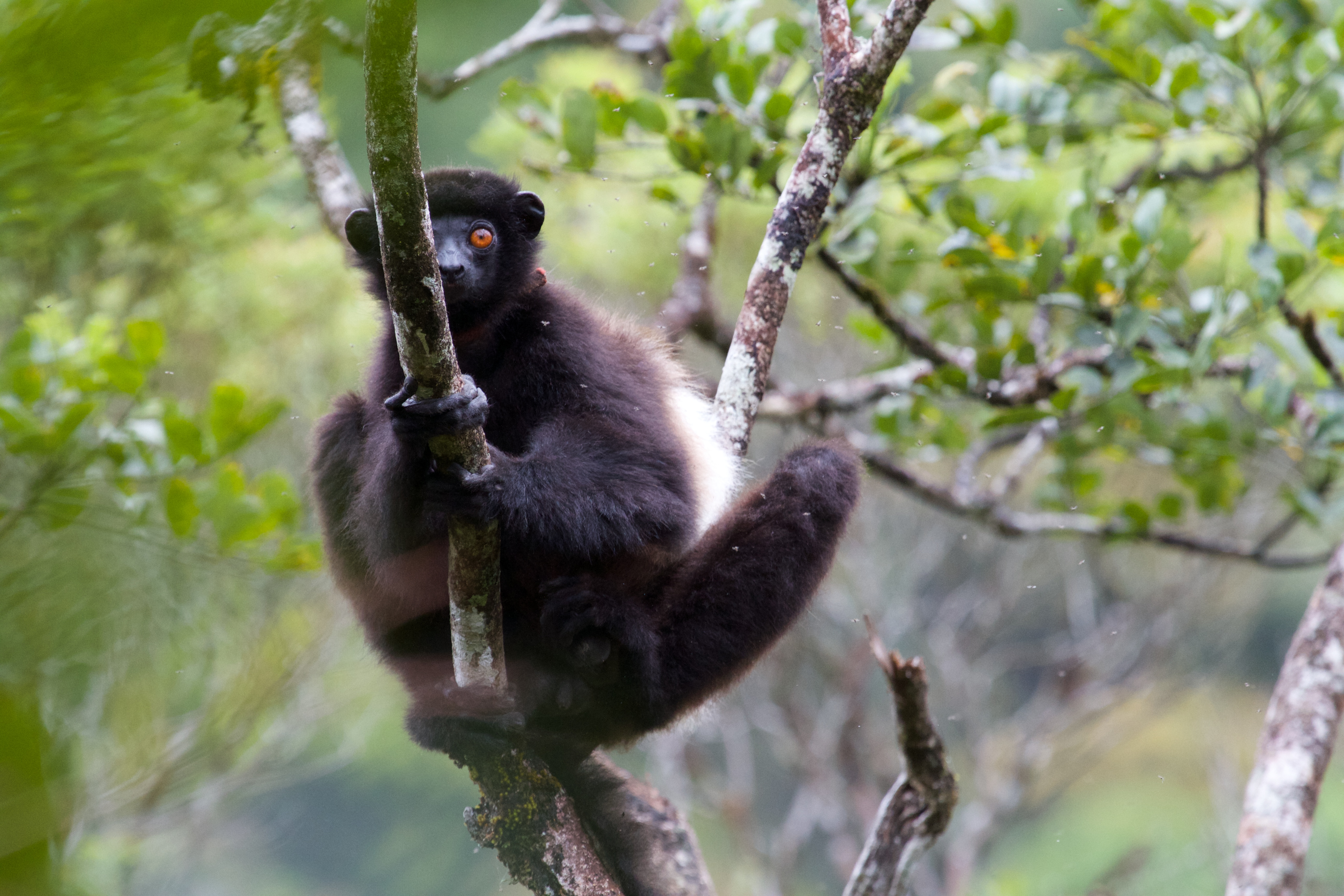 Milne-Edwards' sifaka (Propithecus edwardsi), or Milne-Edwards' simpona, is a large arboreal, diurnal lemur endemic to the eastern coastal rainforest of Madagascar. Milne-Edwards' sifaka is characterized by a black body with a light-colored "saddle" on the lower part of its back. It is closely related to the diademed sifaka, and was until recently considered a subspecies of it.[1] Like all sifakas, it is a primate in the family Indriidae.